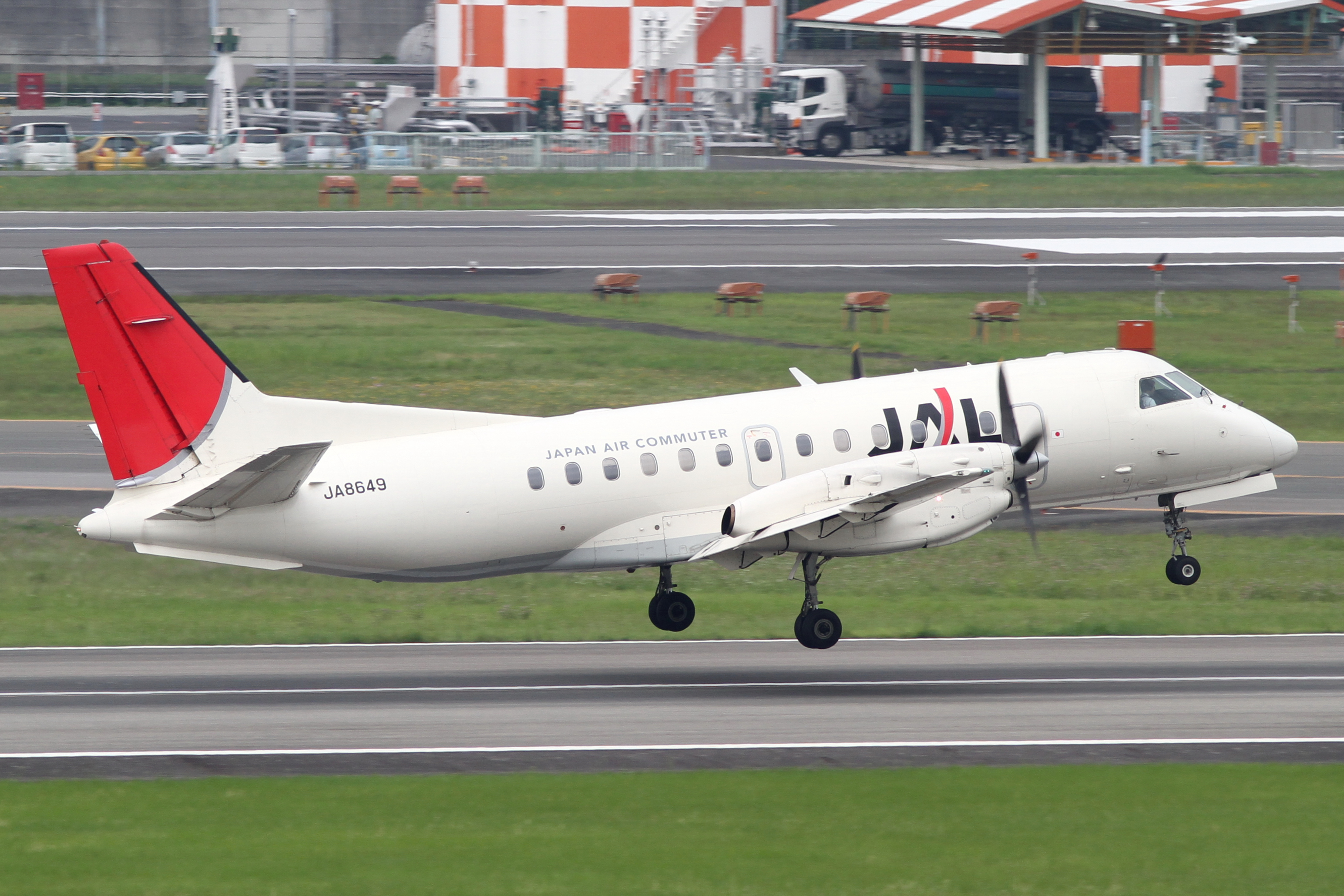 Osaka International Airport, Saab 340B, c/n:368, Japan Air Commuter